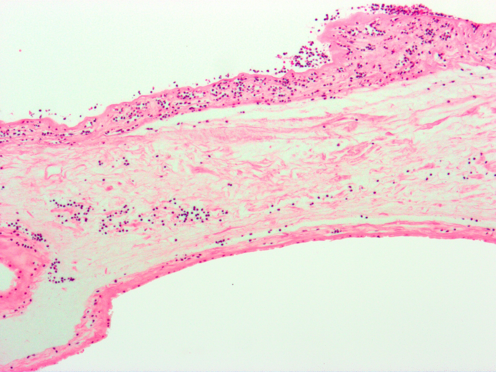 Micrograph of chorioamnionitis. H&E stain. The amnion is seen at the very bottom of the image and composed of a simple cuboidal epithelium and a layer of eosinophilic (pink) connective tissue. It has a few scattered neutrophils - which makes the diagnosis of chorioamnionitis. Above the amnion is the chorion, which also has neutrophils. The fetus (baby) - not shown - would be below the image (and surrounded by amnionic fluid). The top of the image is the maternal aspect of the fetal membranes. It has significant inflammation. The pattern of inflammation seen in this image is typical of chorioamnionitis; most chorioamnionitis results from an ascending infection, i.e. the microorganisms ascend from the vagina/cervix. See also Image:Chorioamnionitis2.jpg - high magnification image.